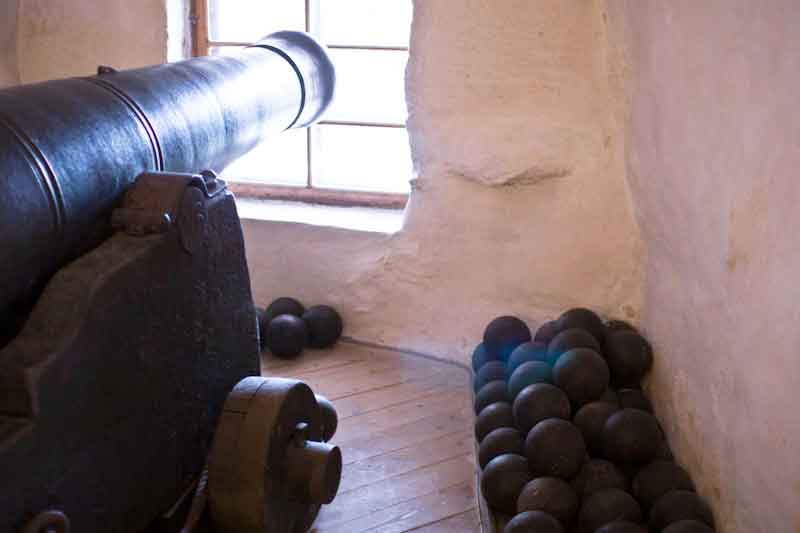 Roundshot at ’’Skansen Kronan’’ in Göteborg, Sweden